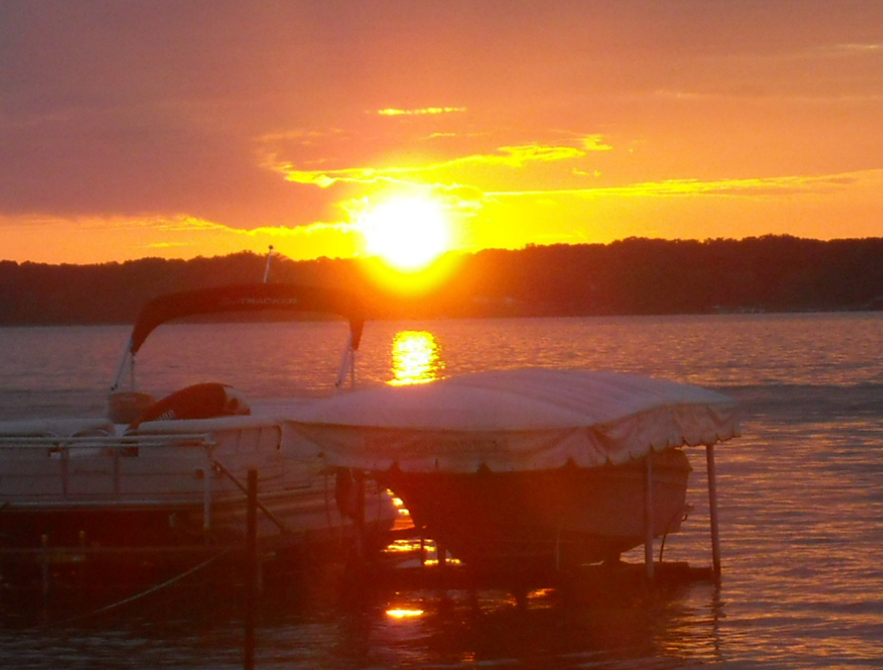 A sunset over the North Shore of Clear Lake, Iowa. The photo was taken from Buzzard's Bay on the South Shore.